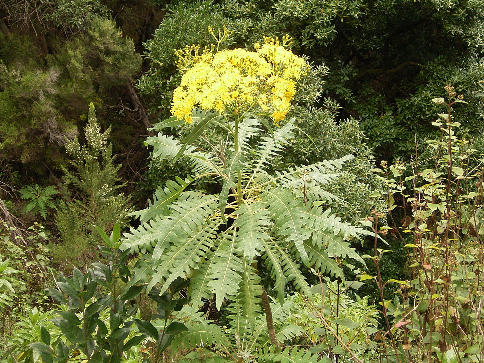 Sonchus palmensis growing in Barlovento, La Palma, Canary Islands